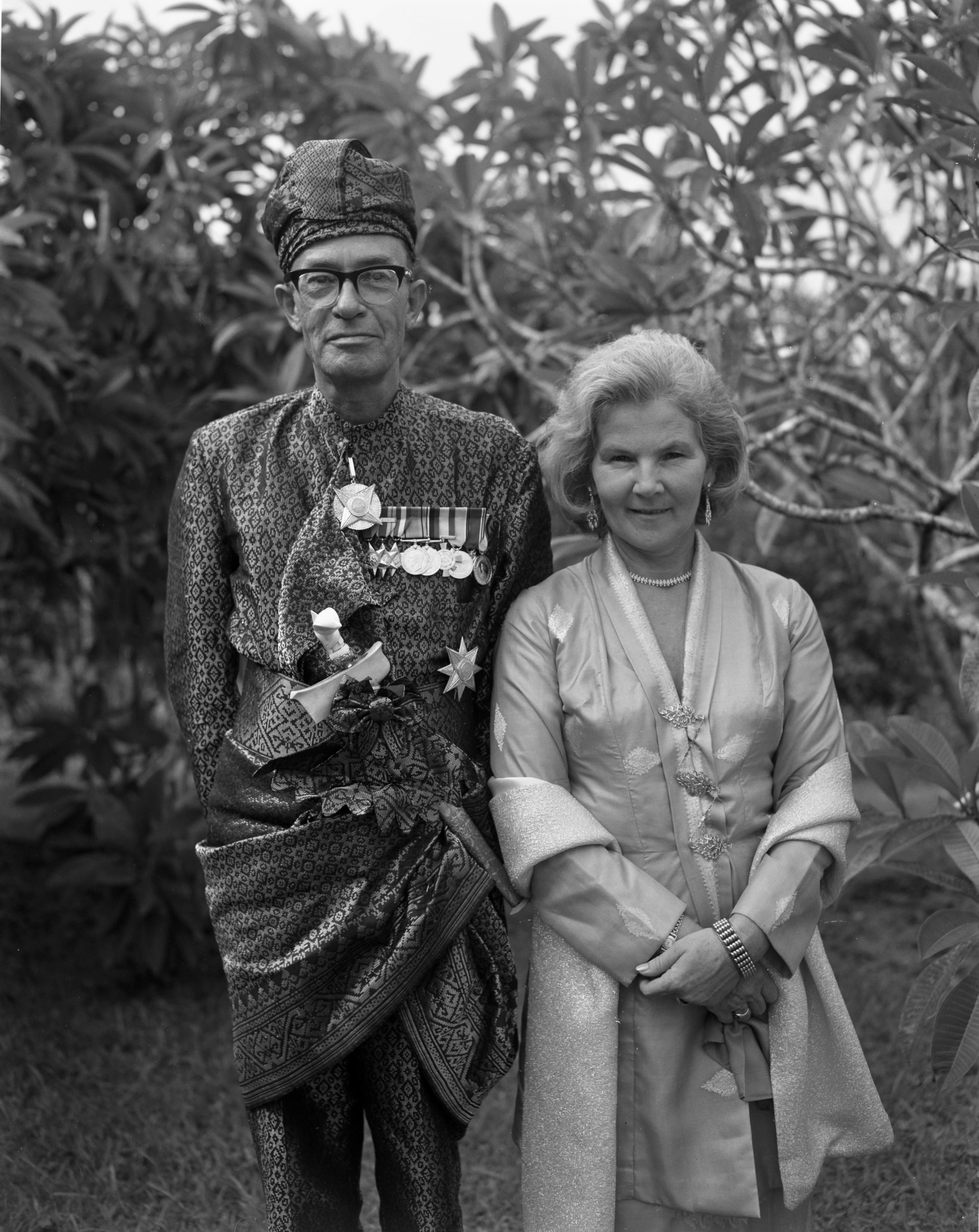 Dato Raoul Teesdale Lloyd-Dolbey and Datin Marianne Elisabeth Lloyd-Dolbey photographed in Brunei in 1967